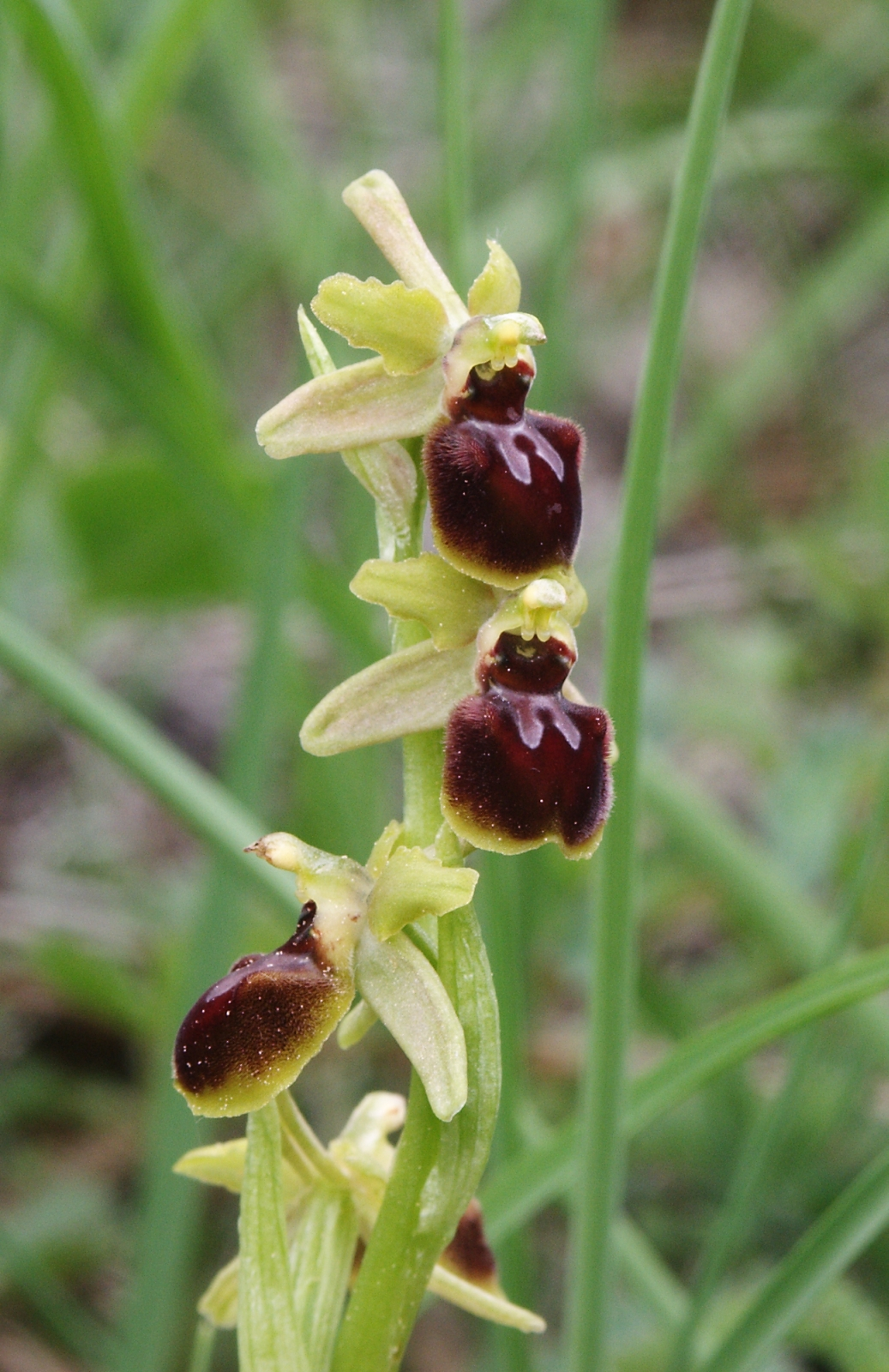 Ophrys × pulchra (Ophrys araneola × holoserica), Tauberland, Germany